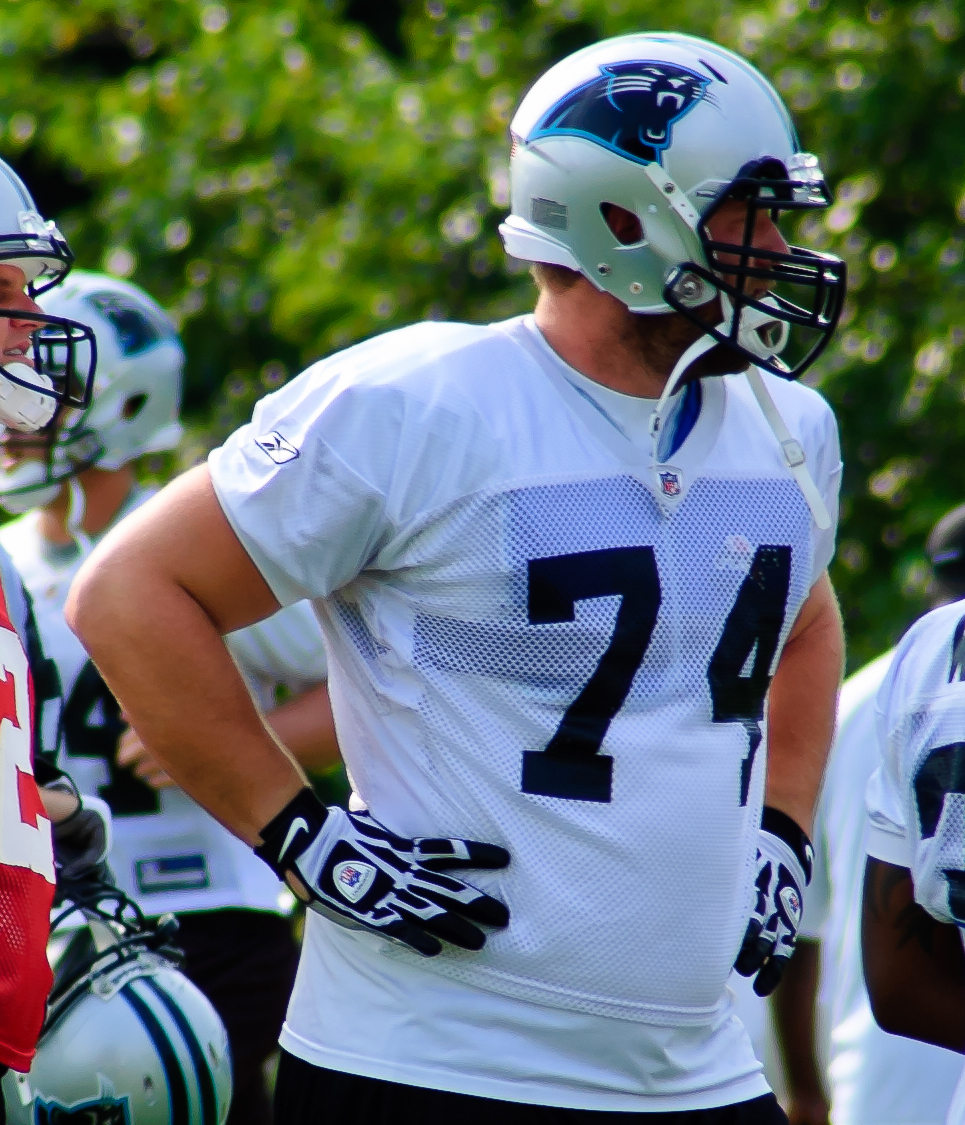 Carolina Panthers Training Camp on August 11, 2010 at Wofford College in Spartanburg, SC.